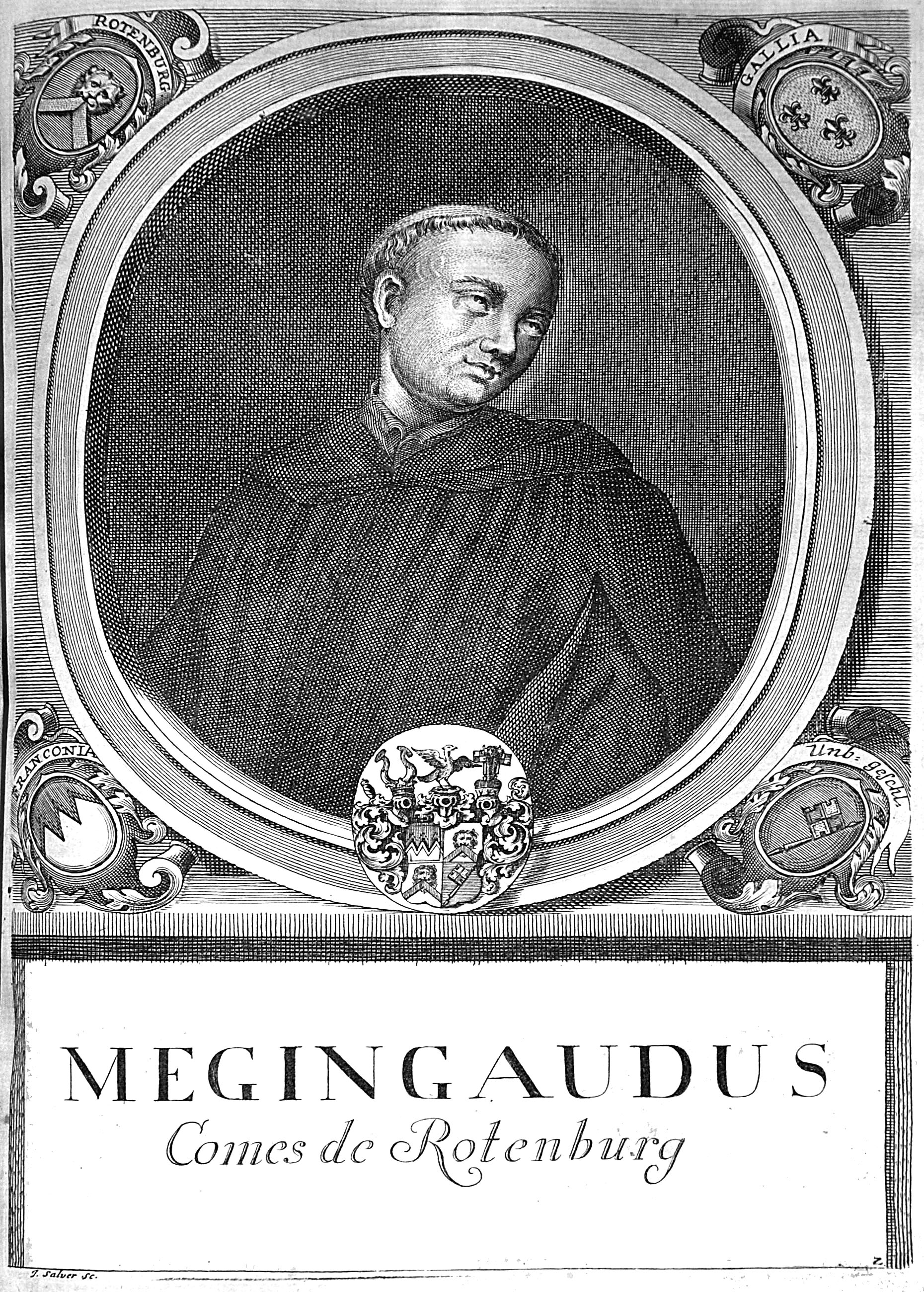 Megingaud von Würzburg 710-783